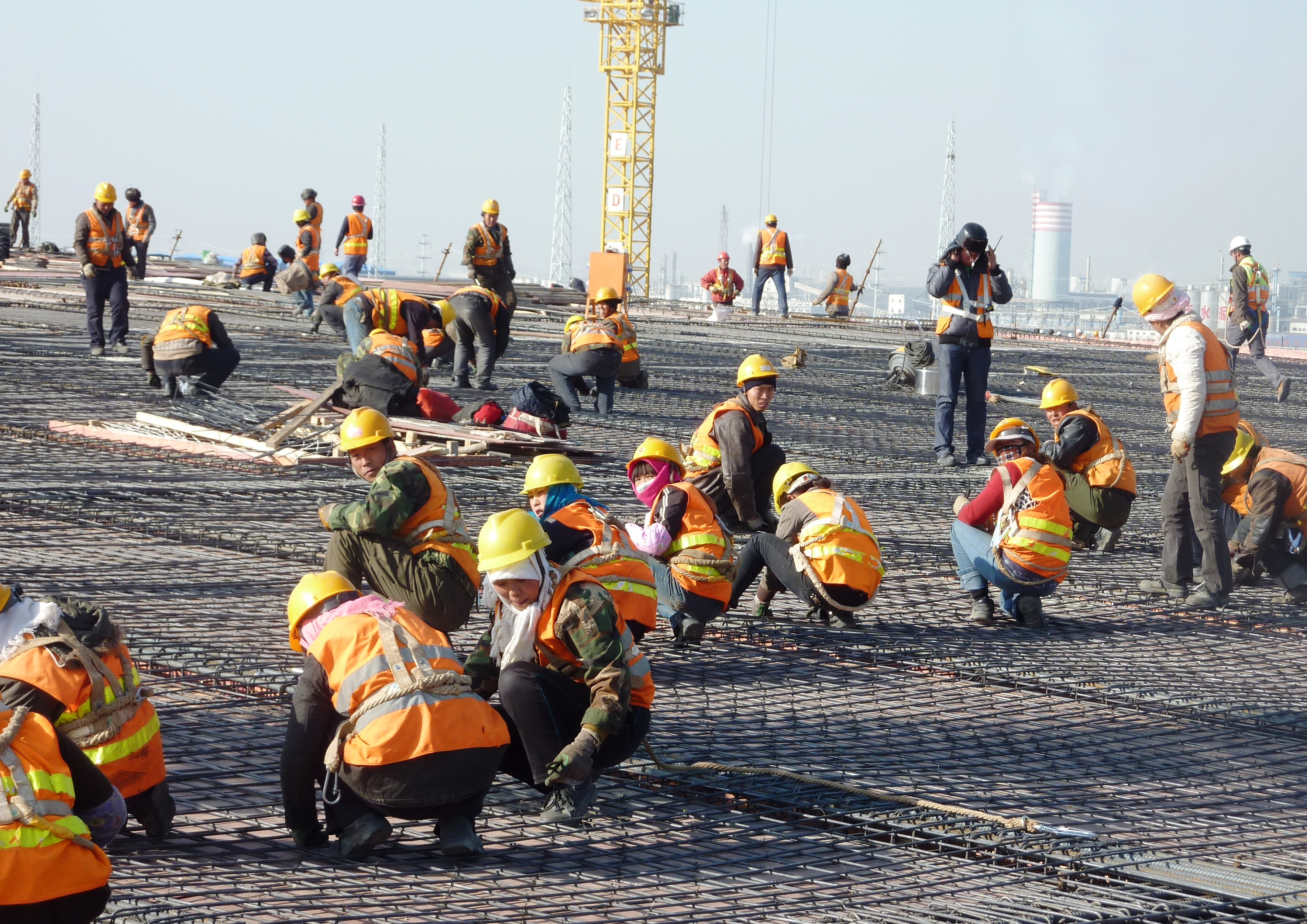 Team of iron binders on a construction site in Northern China